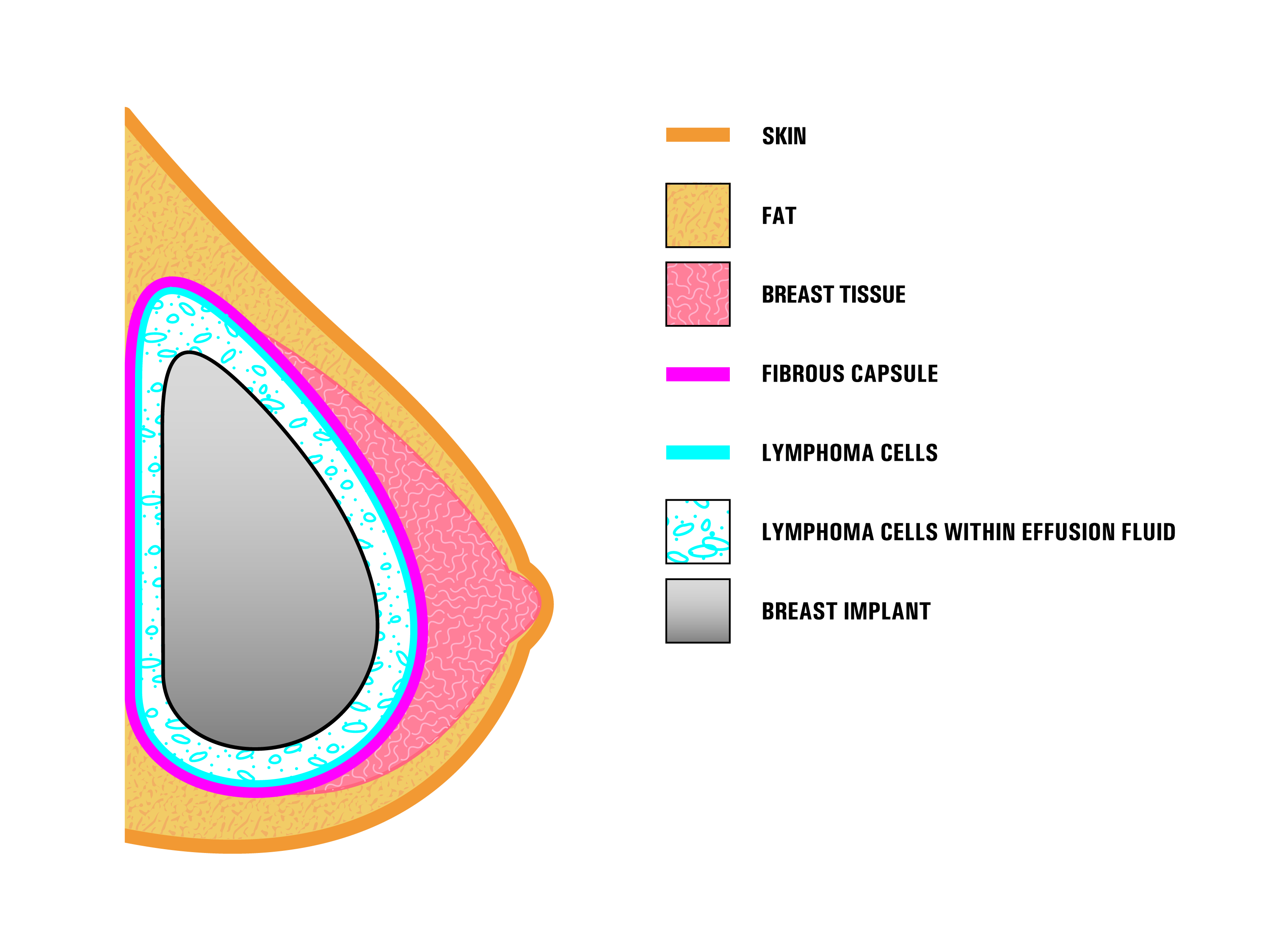 This illustration shows the typical location of the ALCL that was diagnosed in patients with breast implants. ALCL is lymphoma, a type of cancer involving cells of the immune system. It is not cancer of the breast tissue. For more information read these FDA Consumer Updates: • FDA Advises Women with Breast Implants • 5 Things to Know About Breast Implants